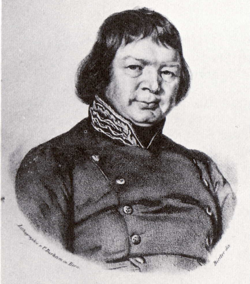 Chief surgeon of the Swiss Army